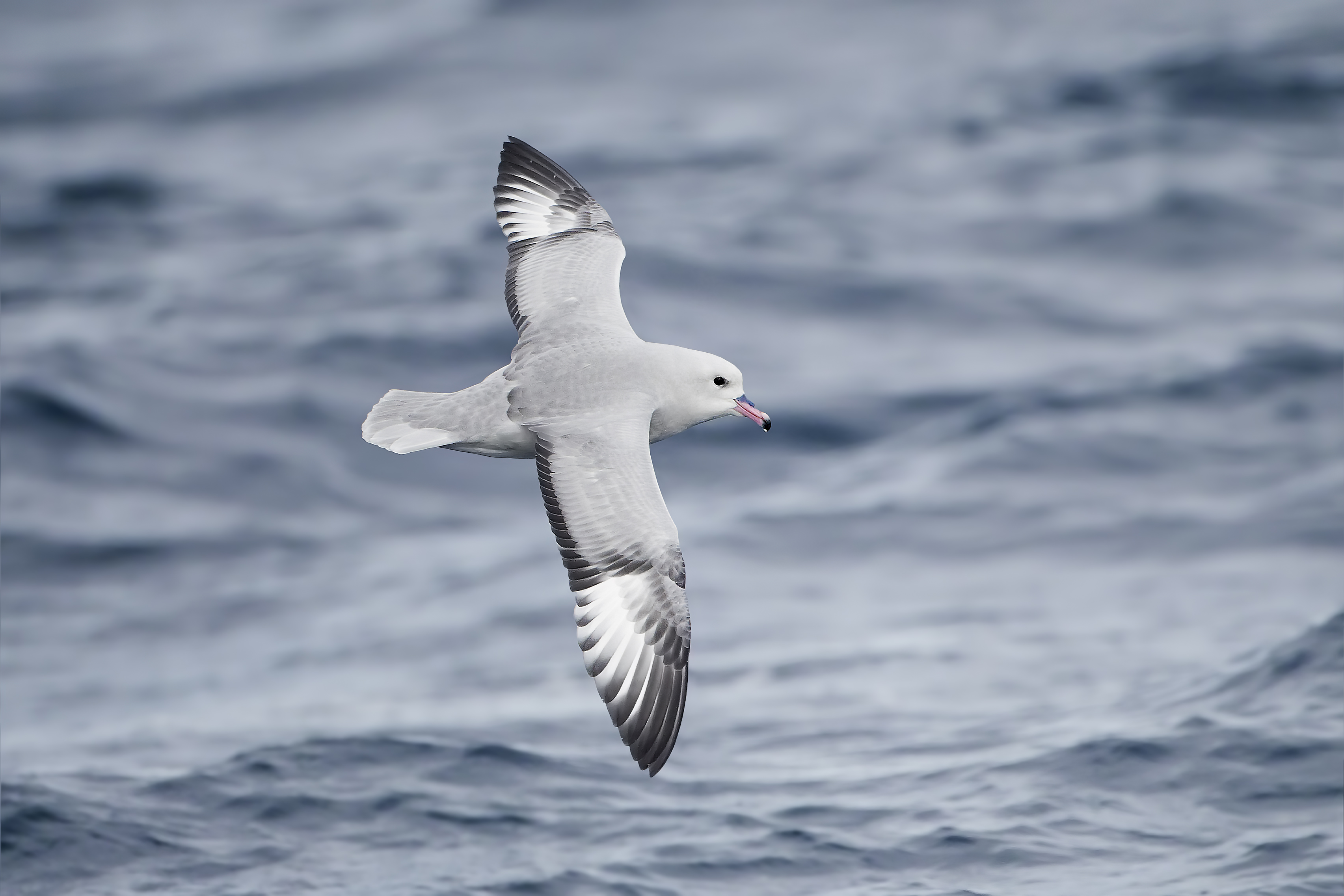 Southern Fulmar (Fulmarus glacialoides) in flight, East of the Tasman Peninsula, Tasmania, Australia